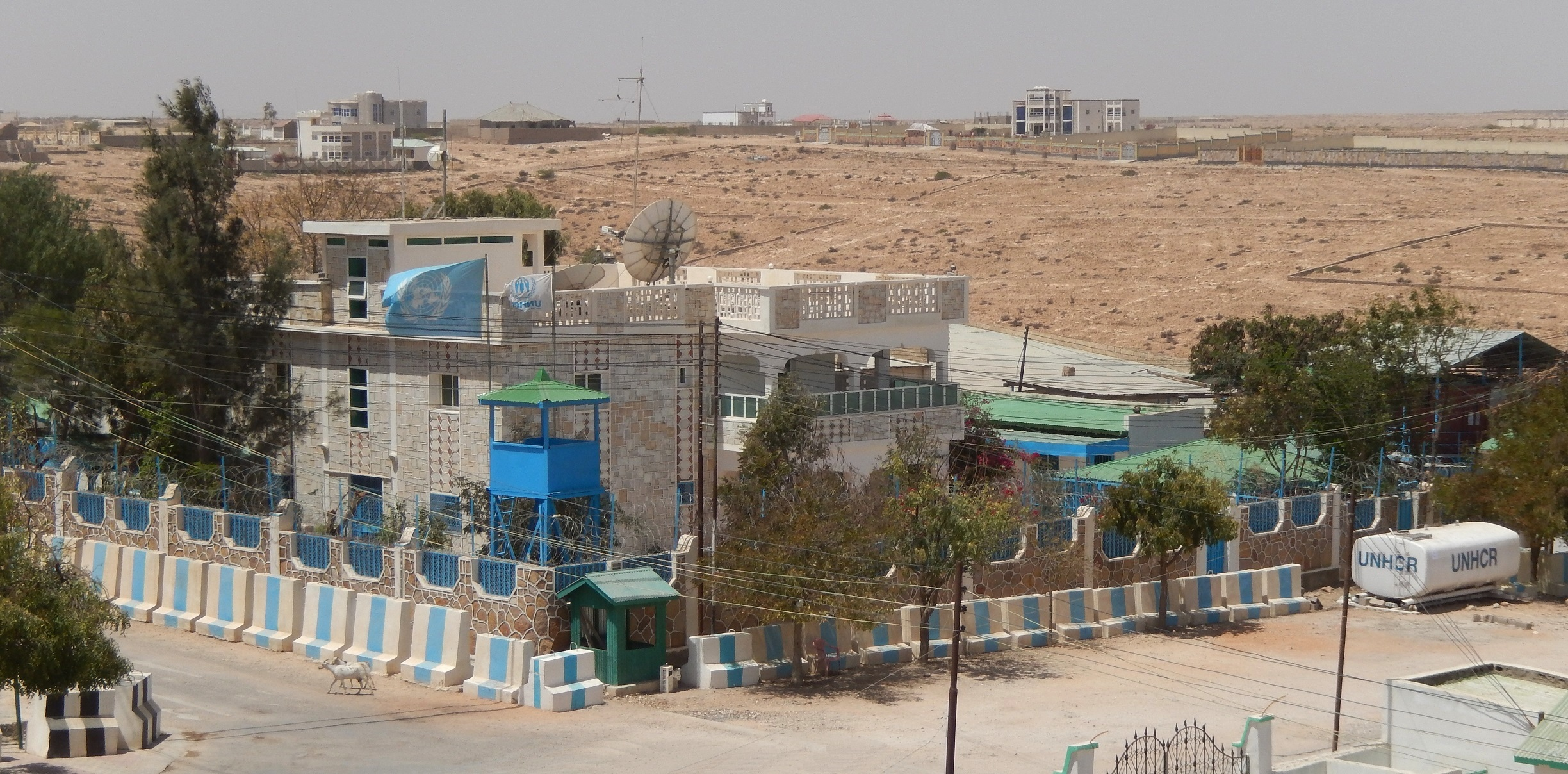 The heavily fortified UNHCR offices in Hargeisa, capital of Somaliland (Somalia).(UNHCR = United Nations High Commissioner for Refugees)